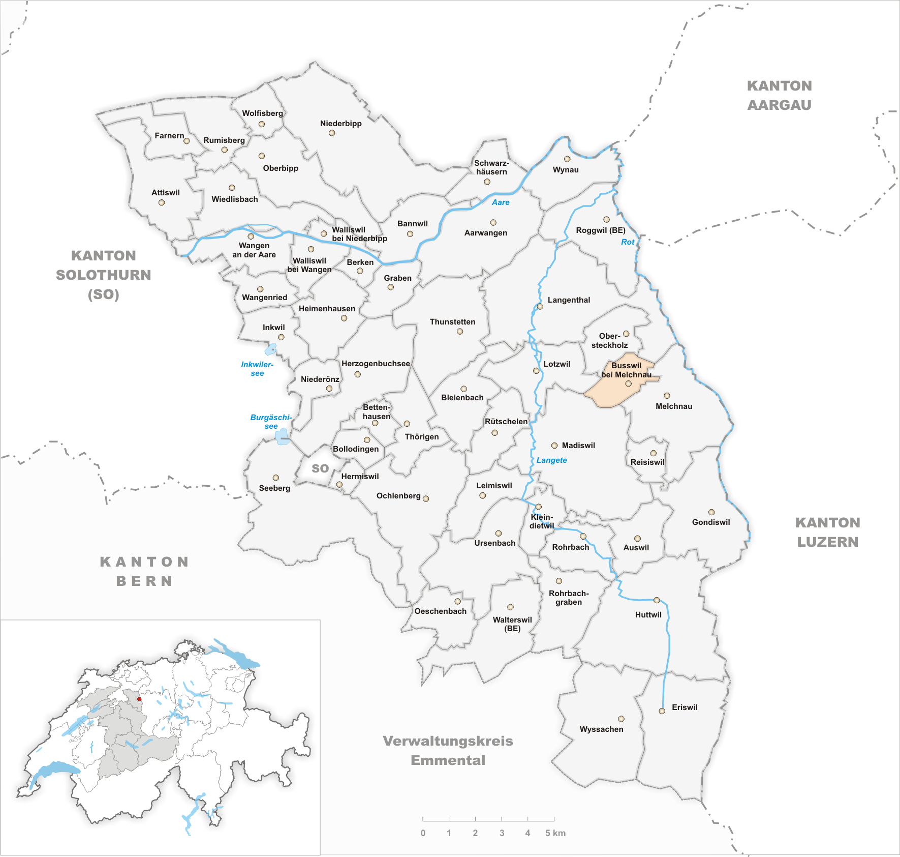 Municipality Busswil bei Melchnau